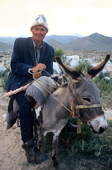 Donkey rider in the foothills of the Kungey Alatau mountains on the outskirts of Cholpon-Ata, Kyrgyzstan. He had crossed the mountains on his way from Almaty in Kazakhstan with a donkey foal (not in the picture) to sell at Karakol market.